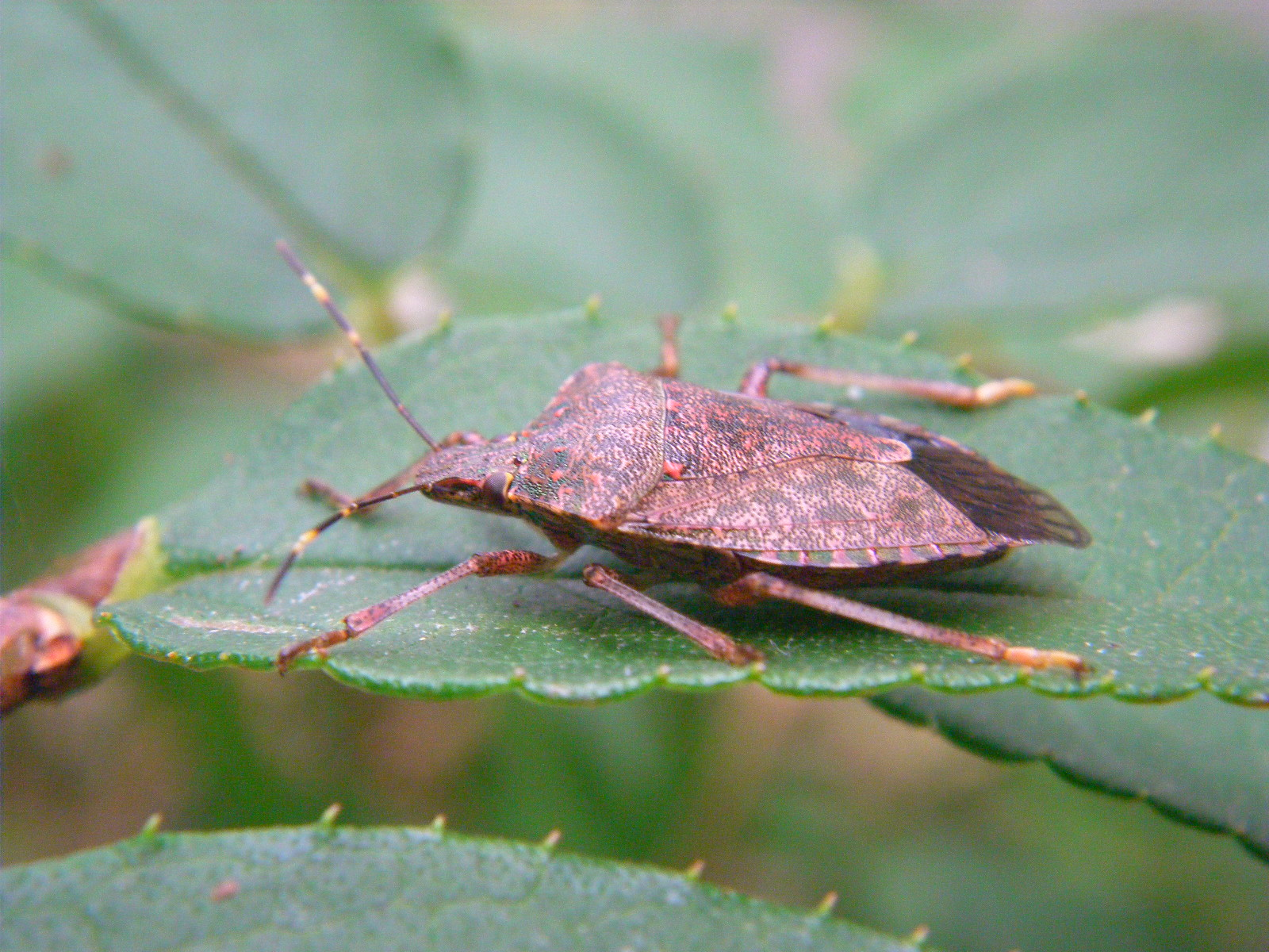 Arma custos, one species of stink bugs. Fujiyoshida, Yamanashi prefecture, Japan.